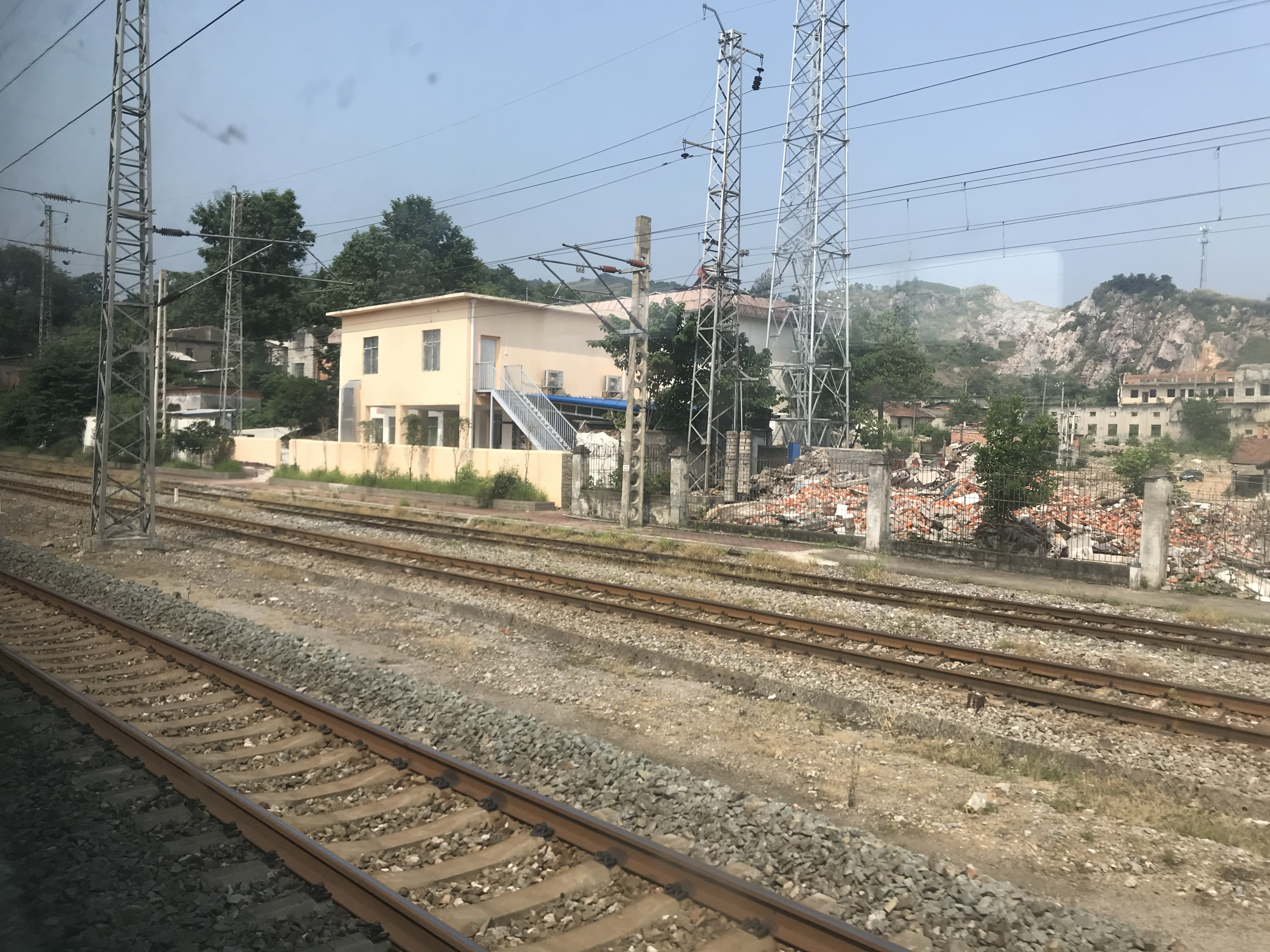 Last stop of Wuhan Railway Corp, but I made a wrong prediction of the side of the station building...